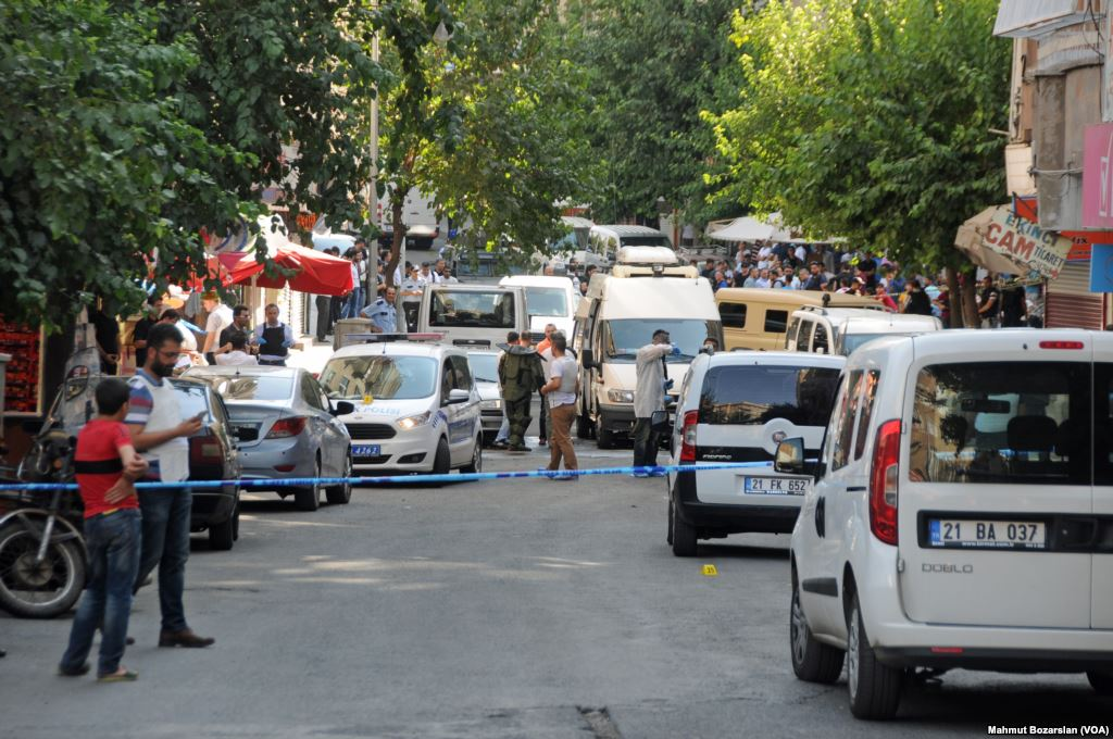 The Turkish police conduct raids on terrorist suspects in July 2015